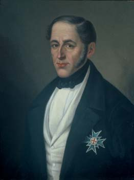 Former President of the Bavarian Academy of Science